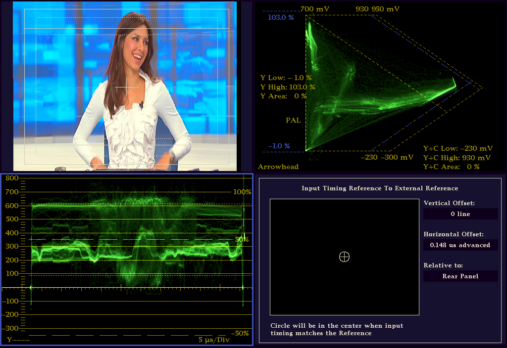 Different instrumental viewports of a video signal showing a picture of a talent wearing a white dress. The knee level and slope are such that details are visible in the white zones, that would be otherwise overexposed.